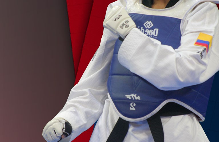 taekwondo